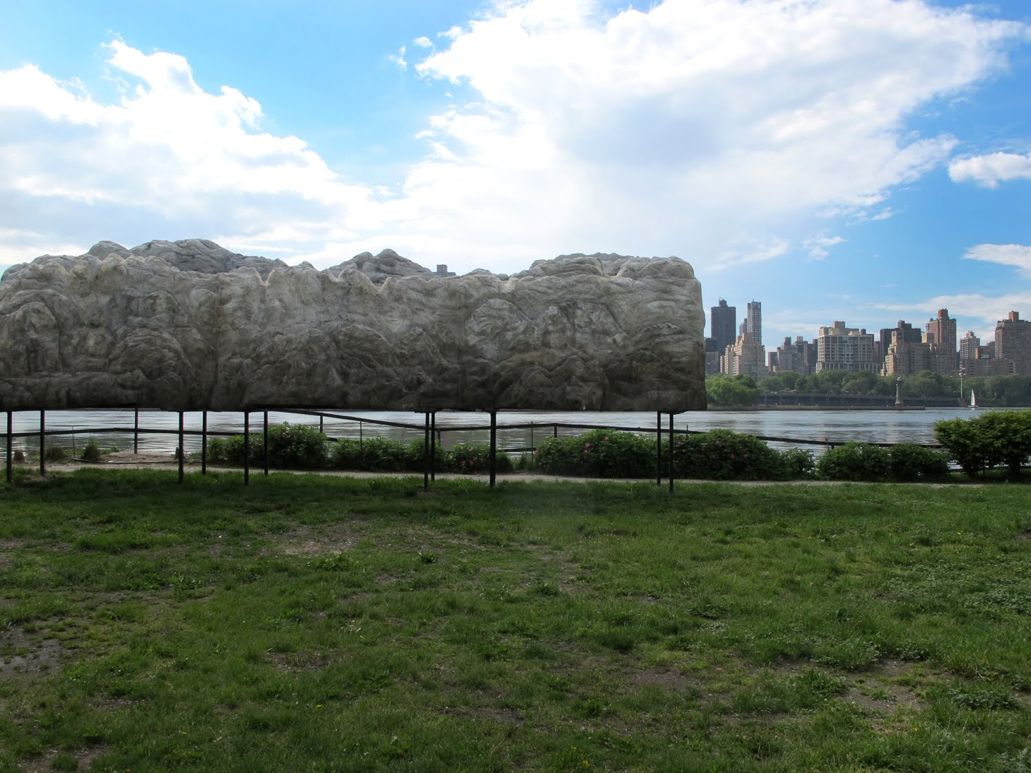 Mountain Views by Blane De St. Croix in Socrates Sculpture Park